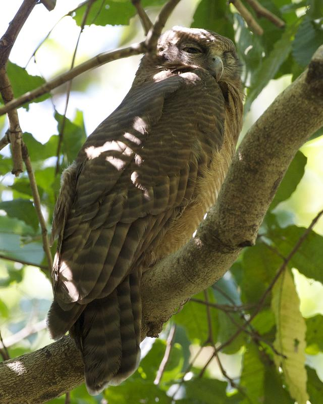 Rufous Owl - winking Ninox rufa Botanical Garden, Darwin, Northern Territory, Australia August, 2010 Distribution: 690V0539